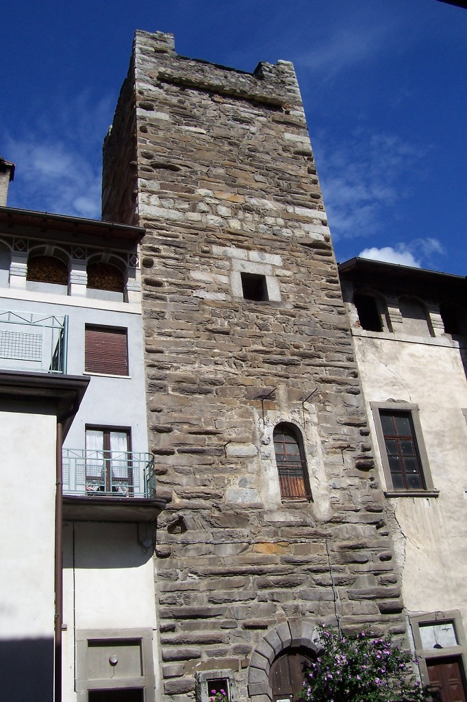 Torre of the palace Celeri Martinengo. Malonno, Val Camonica